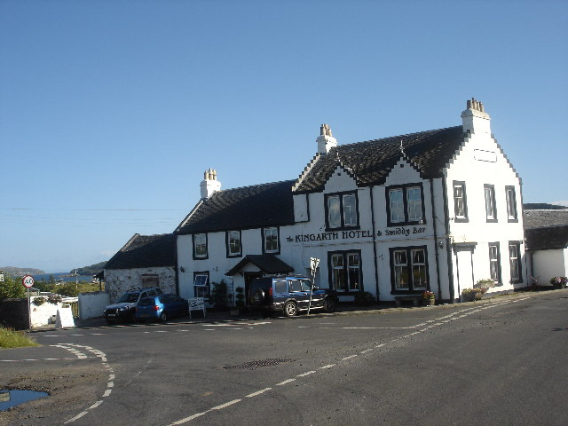 Kingarth Hotel Bute. Despite a sign claiming to serve food all day every day I was denied a bowl of soup even as they claimed a wedding was preventing them dealing with passing trade. Poor show for the Scottish tourist trade yet again !!Owned by an English family!It must be said!!!